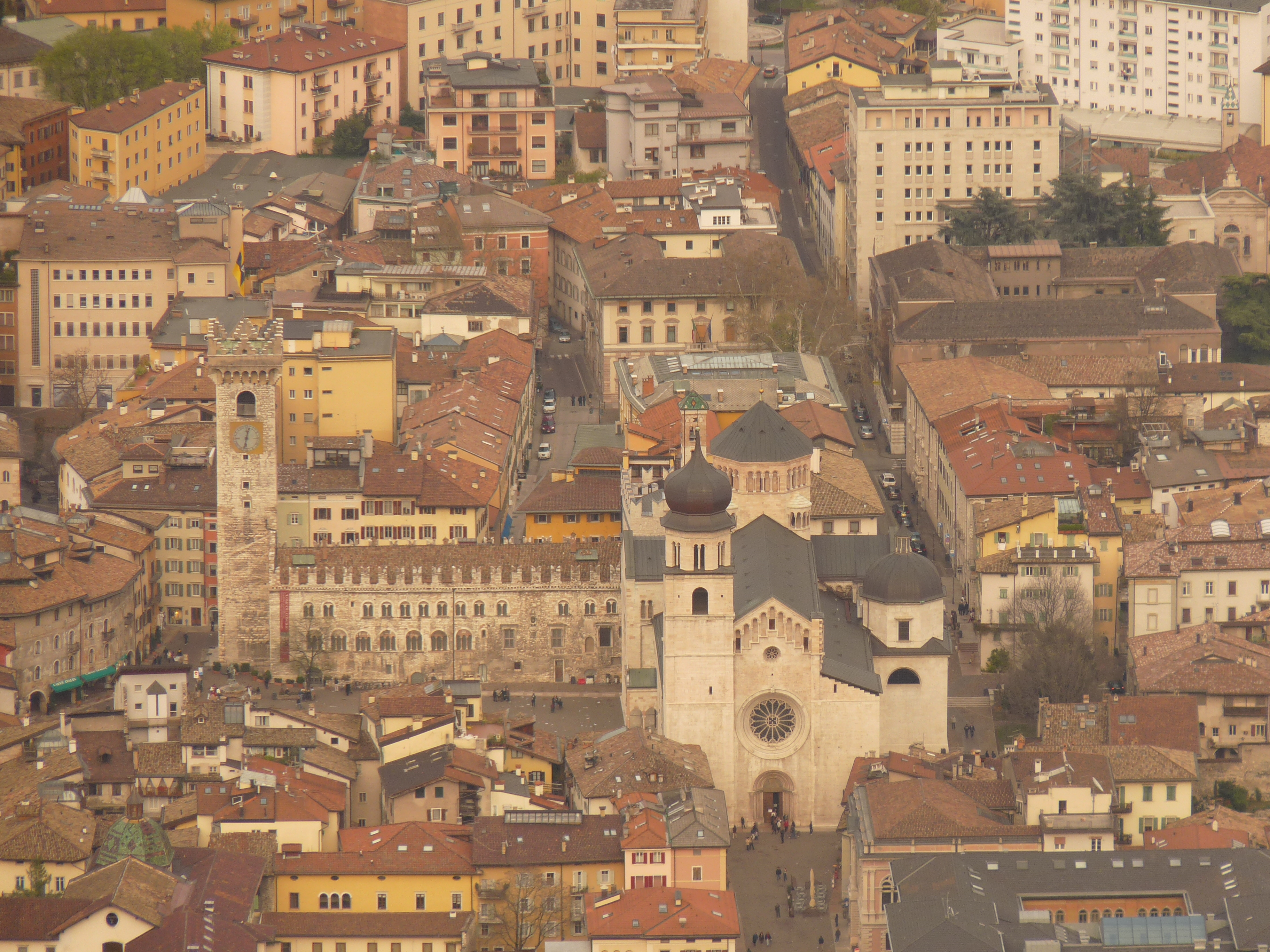 Trento (Italy): the Torre Civica (Civic Tower, left), Palazzo Pretorio (center) and the cathedral of Sain Vigilius (right) viewed from Sardagna